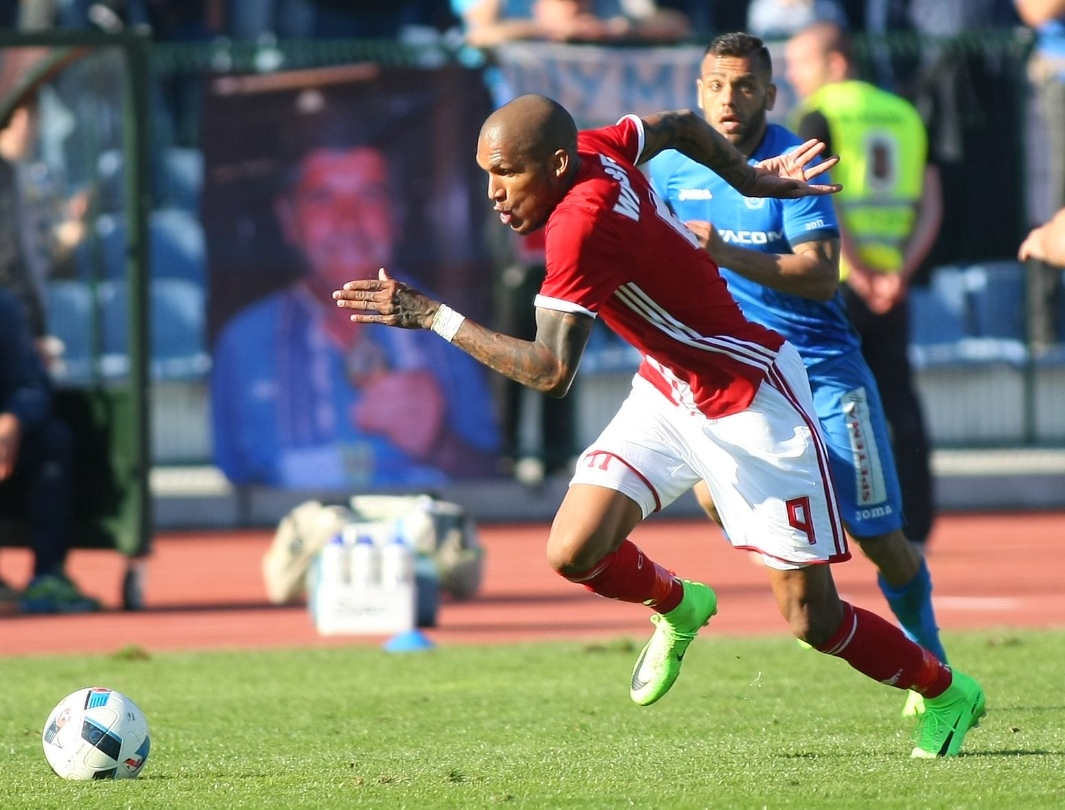 Fernando Karanga - Brasilian soccer player